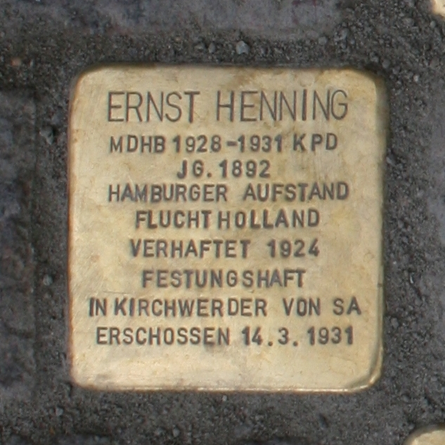 Stolperstein for Ernst Henning, member of the Bürgerschaft Hamburg, murdered by members of the SA 1931. Position: At the left side of the main entrance of the city hall in Hamburg, laid on June 8, 2012